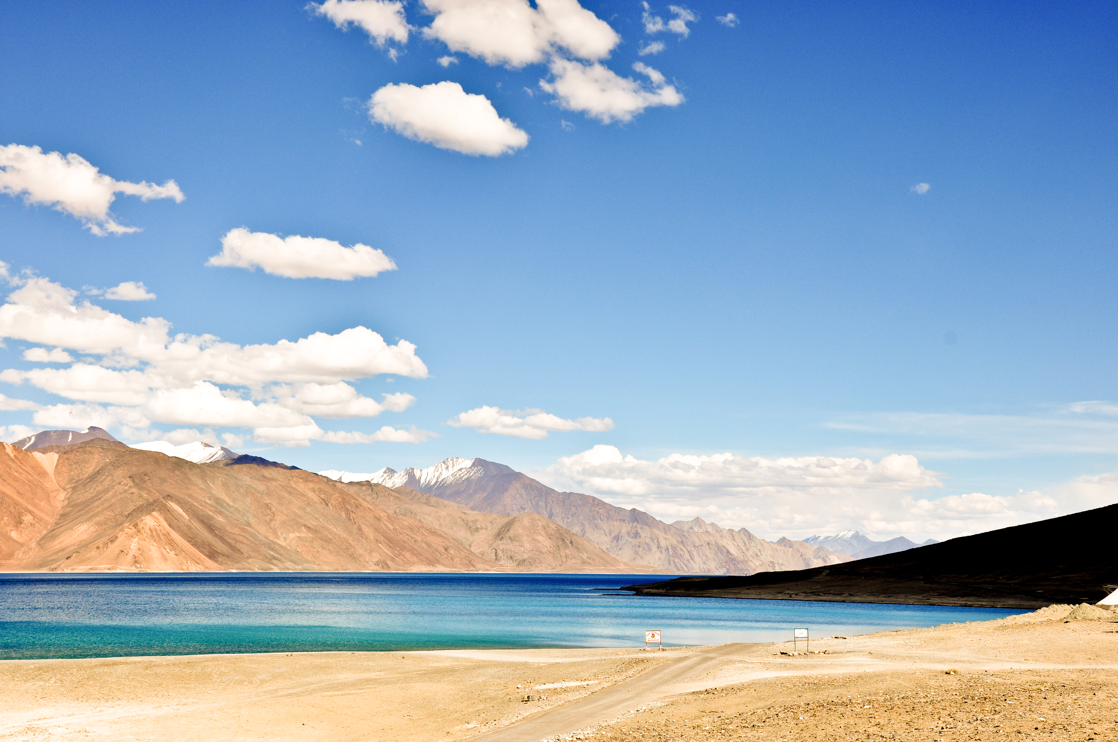 Pangong Lake in India